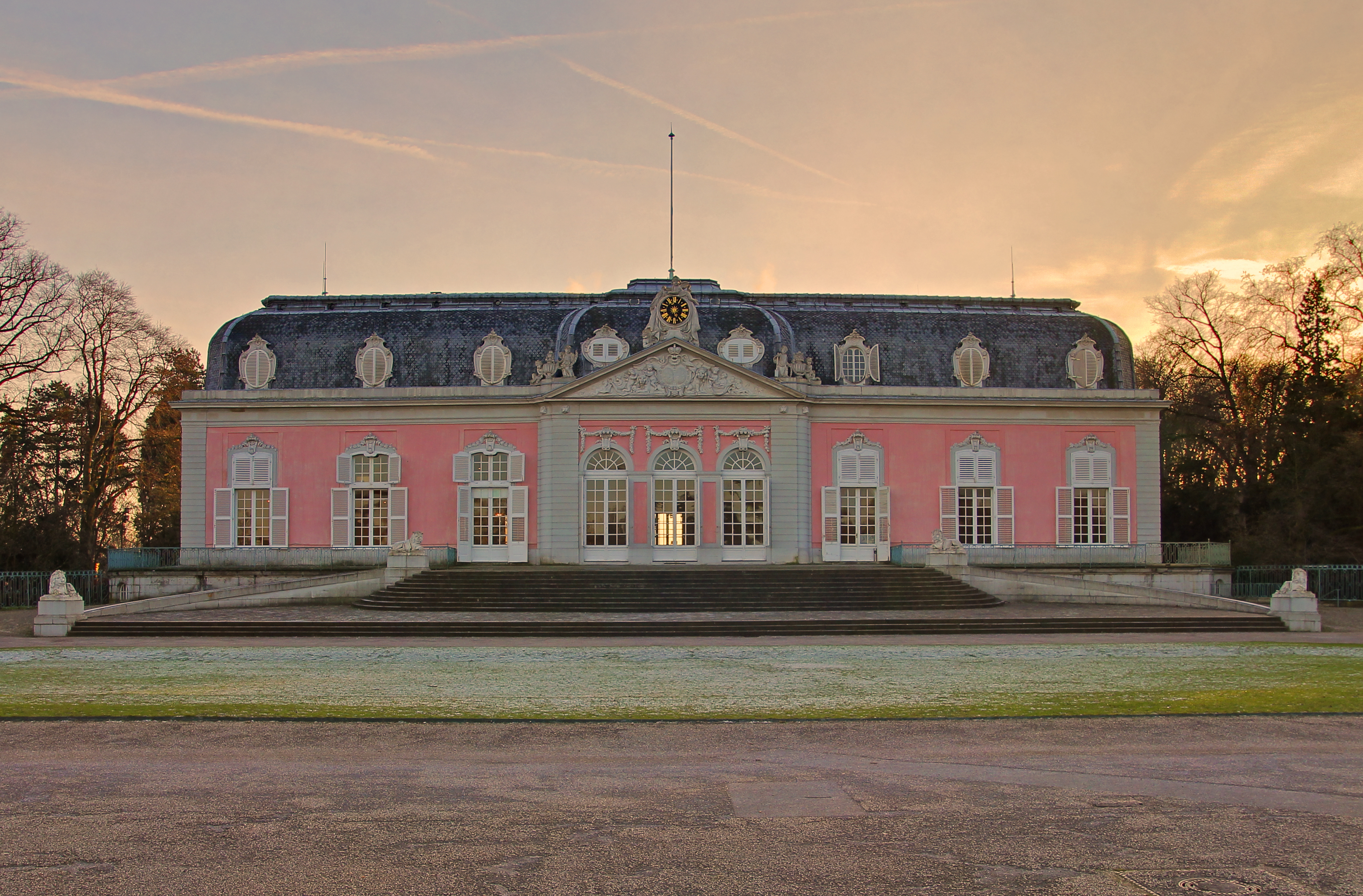 Benrath Castle in Düsseldorf. Exposure fusion of 3 shots with PTGui Pro.